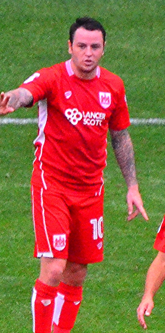 Lee Tomlin playing for Bristol City against Aston Villa at Ashton Gate Stadium, Bristol on 27 August 2016